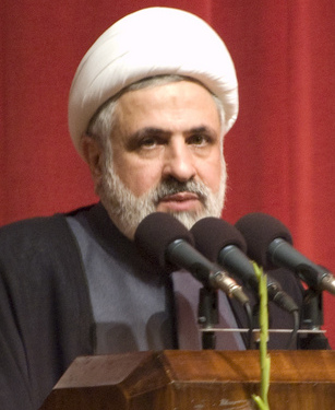 Deputy Secretary-General of Hezbollah, Naim Qassem, Beirut